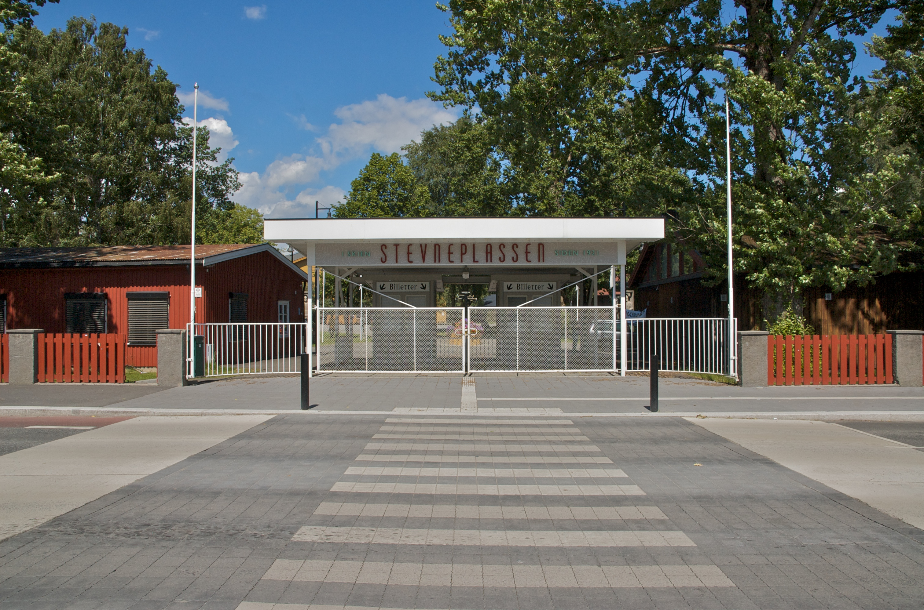 Main entrance to "Stevneplassen", a market place in Skien, Norway.